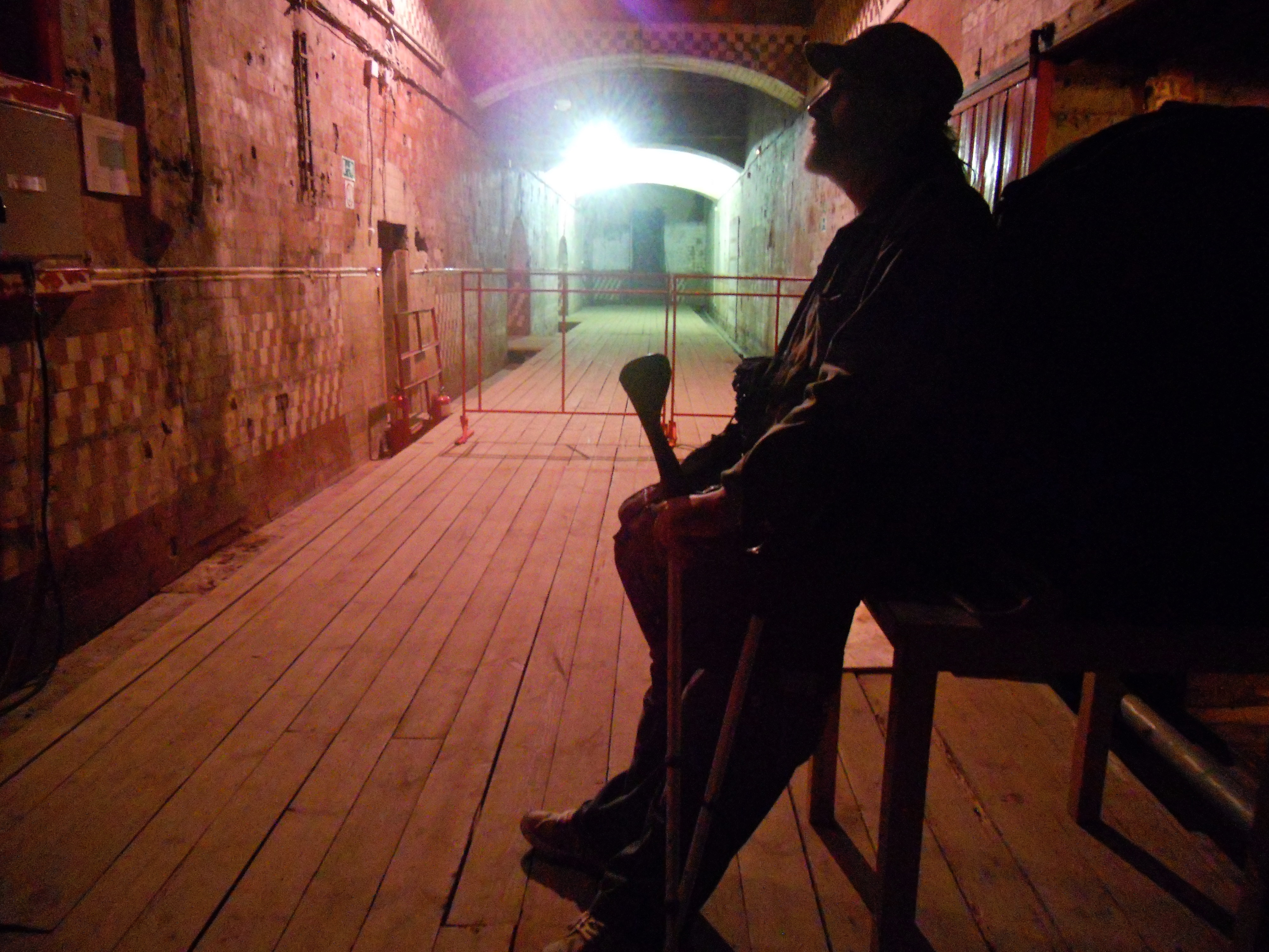 Playwright Vadim Levanov at the show of the play "Gerontophobia" (directed by Yevgeny Berkovich) in his eponymous play. Project "Platform". Large wine storage, center for contemporary art "Vinzavod", Moscow, Russia. May 18, 2011.